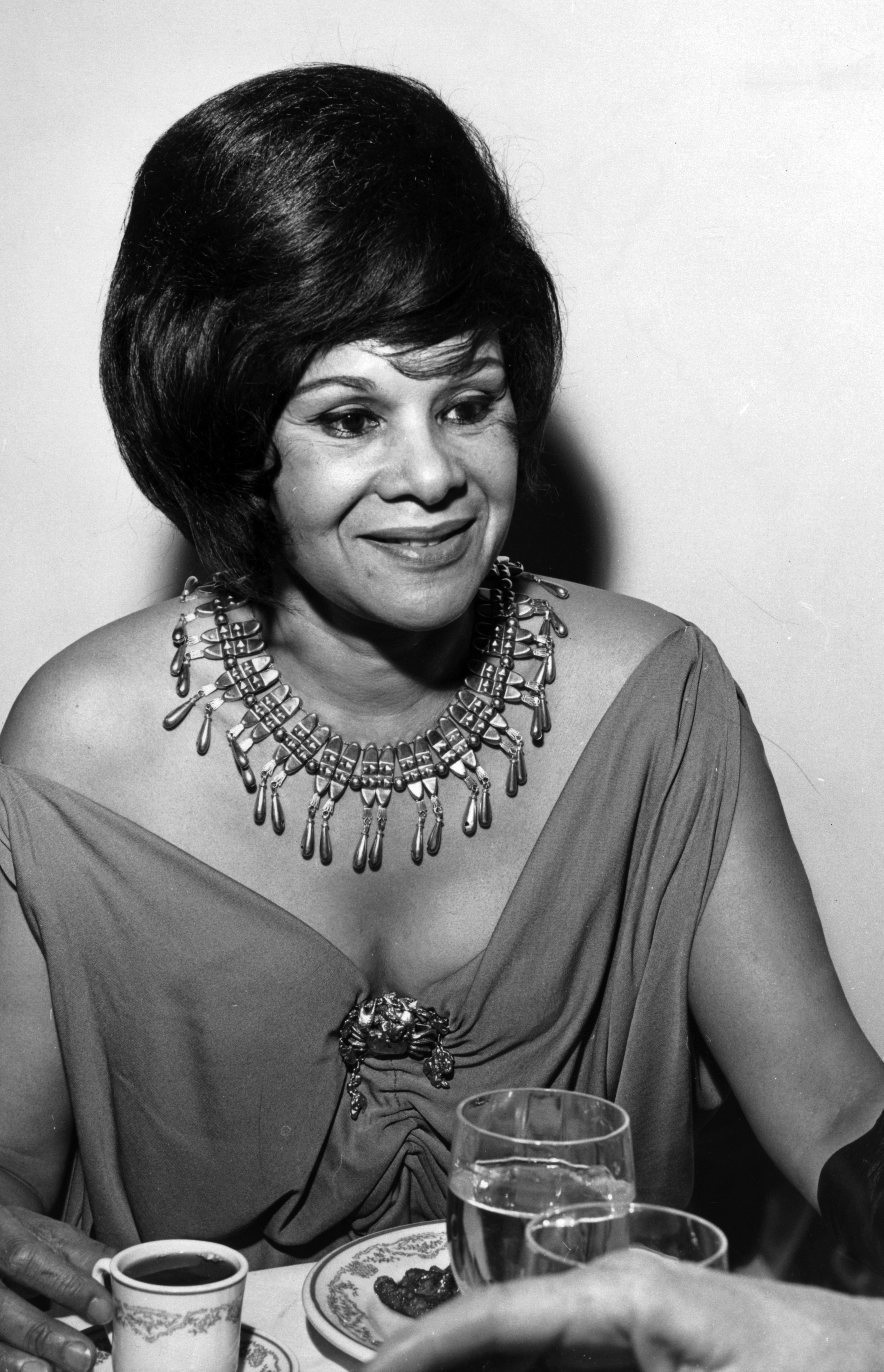 American dancer, choreographer, songwriter, author, actress, and activist Katherine Mary Dunham (1909–2006)